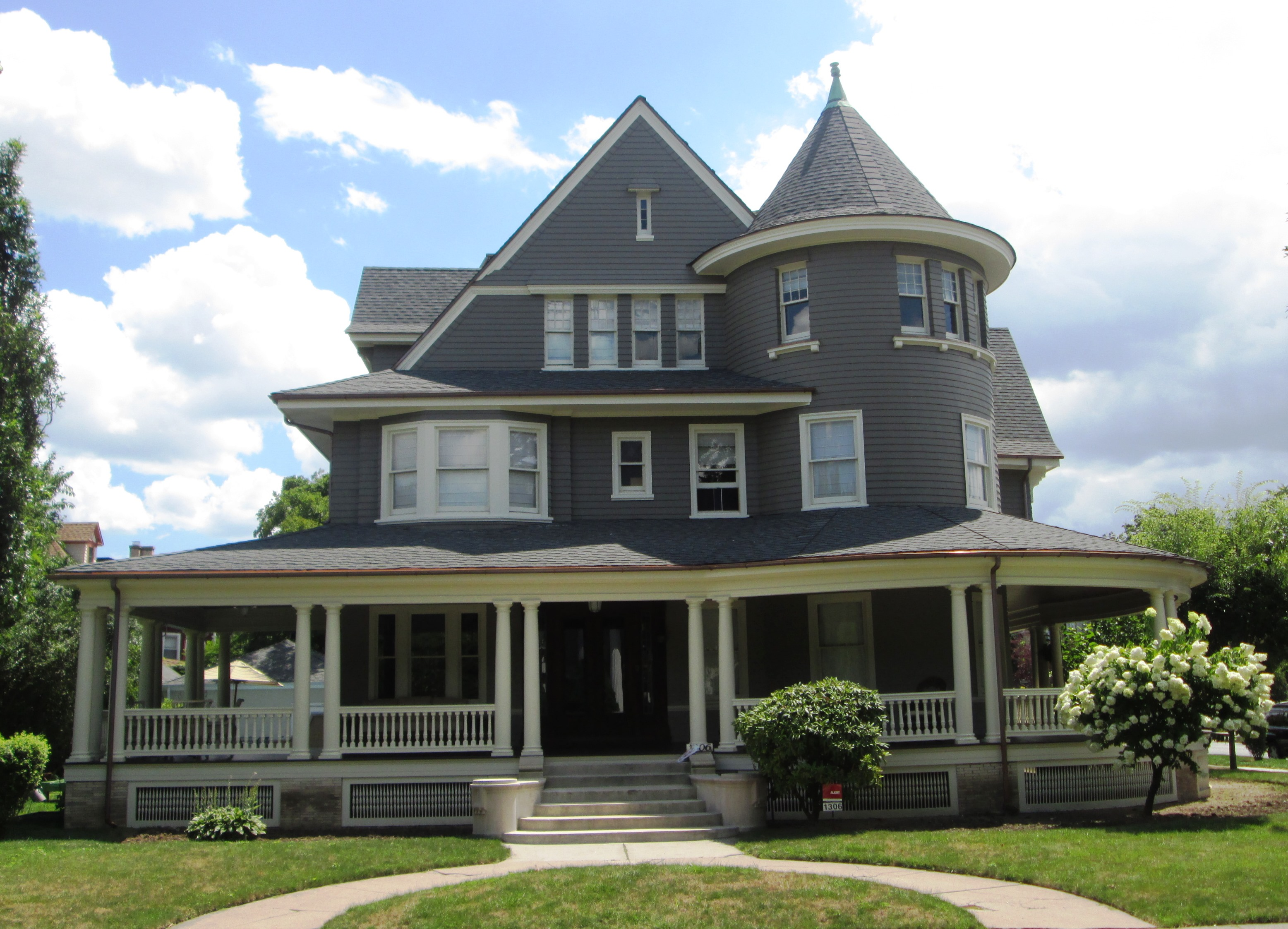 The former John S. Eakins House at 1306 Albemarle Road at Argyle Road in the Prospect Park South neighborhood of Brooklyn, New York City was built in 1905 and was designed by John J. Petit in a combination of the Shingle and Colonial Revival styles. It is located in the Prospect Park South Historic District. (Source: "Prospect Park South Historic District Designation Report")